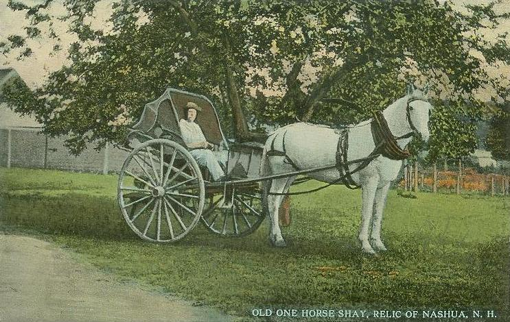 Old one horse shay, relic of Nashua, New Hampshire